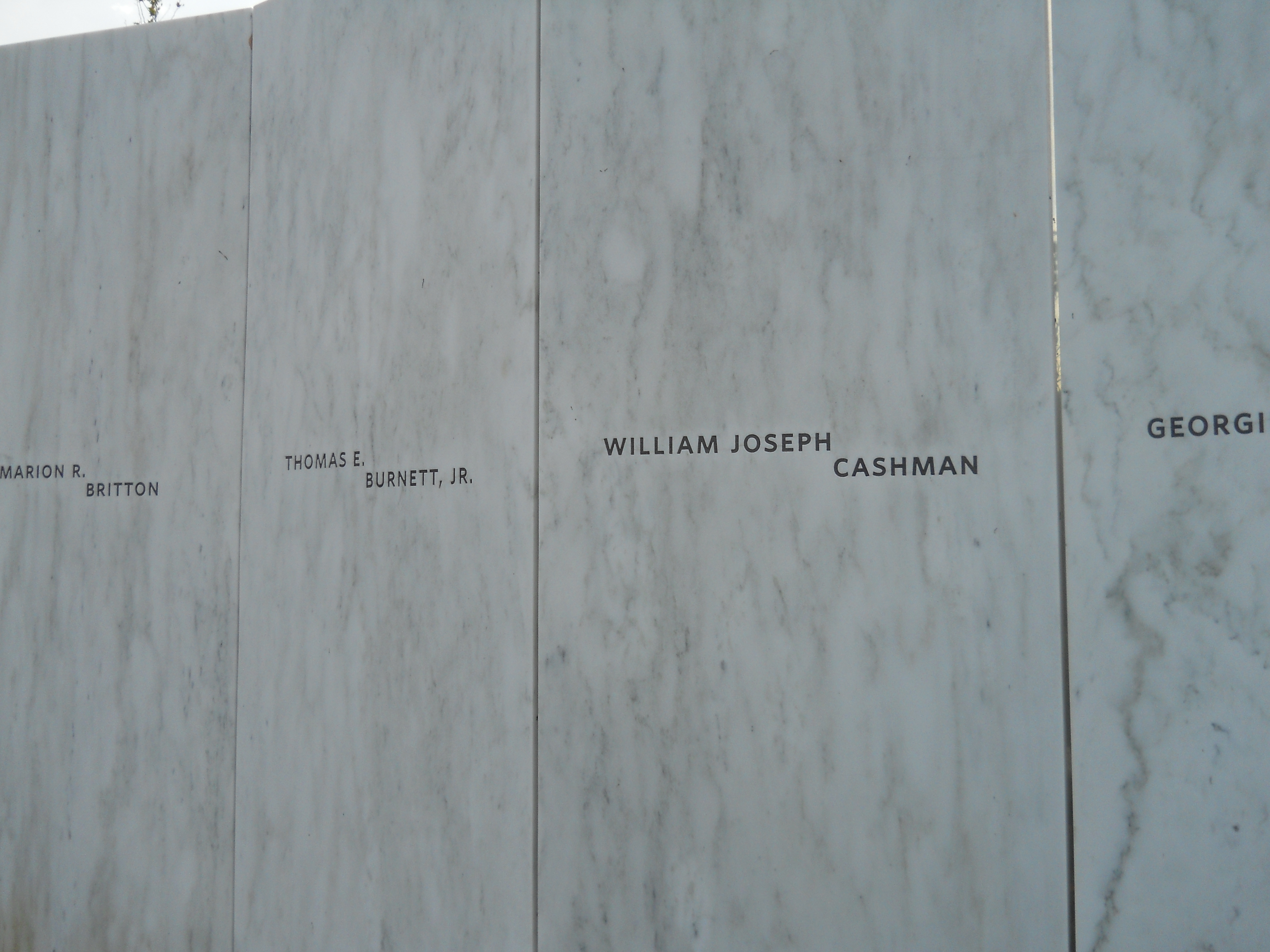 Flight 93 National Memorial, West of Sky Line Road, Shanksville vicinity Stonycreek Township